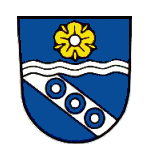 Coat of Arms of Hausen bei Würzburg